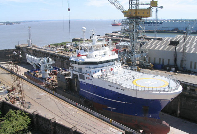 The Bibby Sapphire in Monks Ferry Drydock, Birkenhead IMO Number: 9268150 MMSI Number: 354149000 Callsign: 3EAN5 Length: 95 m Beam: 18 m